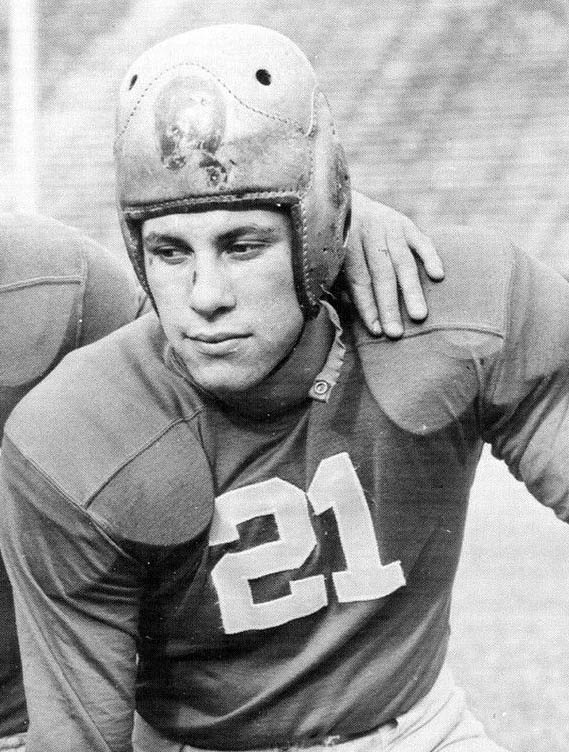 Frank Sinkwich, player of the Georgia Bulldogs football team.